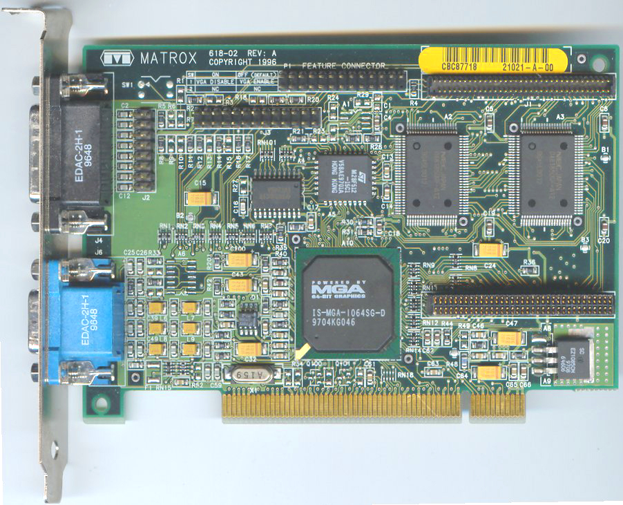 Matrox Mystique 2 MB version for PC. Card scanned by me.